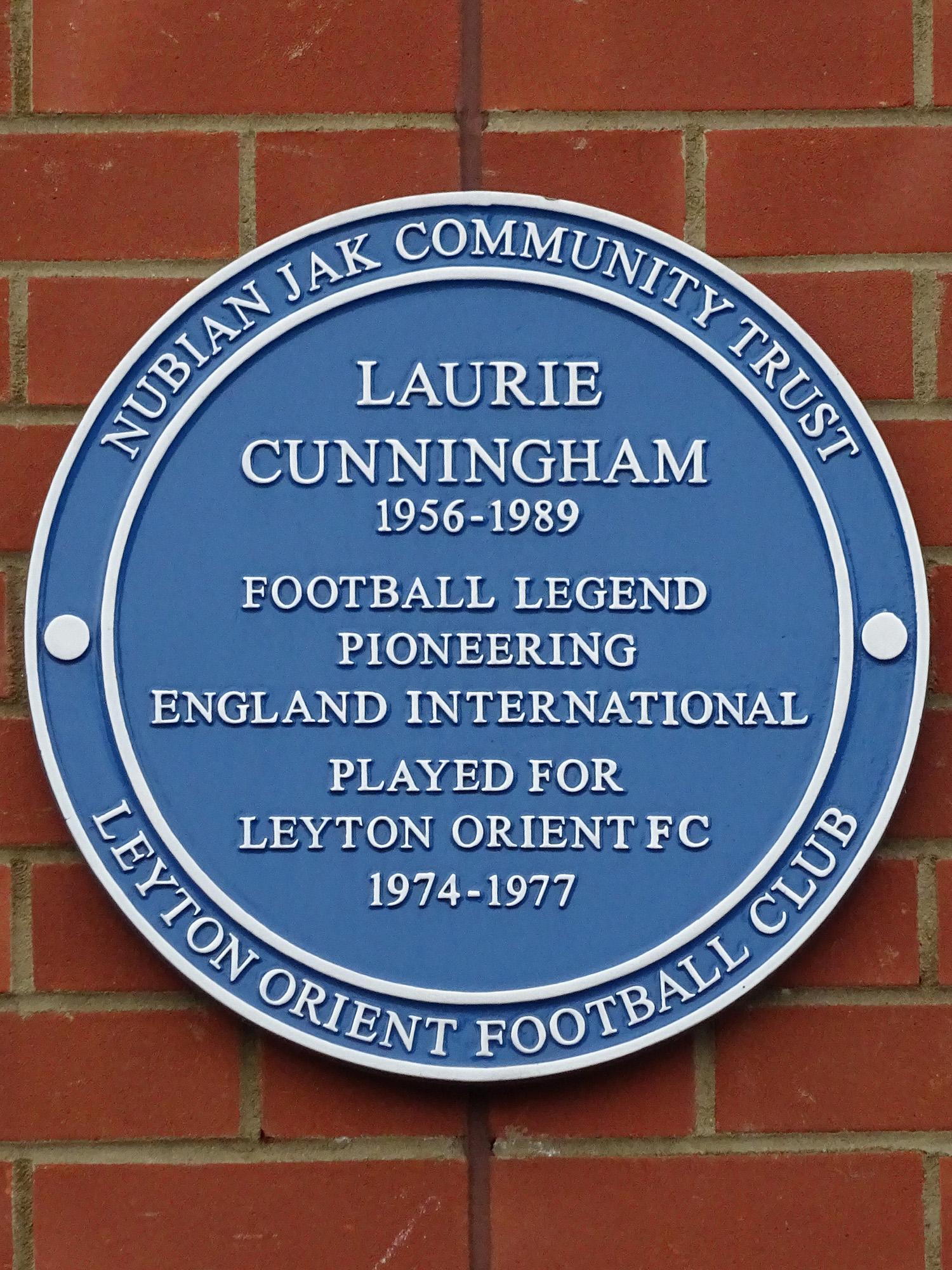 Blue plaque erected on 26th February 2016 by Nubian Jak Community Trust and Leyton Orient Football Club at Kitchen Court, Brisbane Road, Leyton E10 5NZ